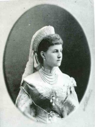 Princess Alexandra of Greece and Denmark